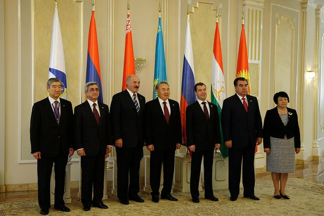 Dmitry Medvedev, as well as the leaders of Armenia, Belarus, Kazakhstan, Kyrgyz President Roza Otunbayeva, and Tajikistan in Kazakhstan, 2010-07-05